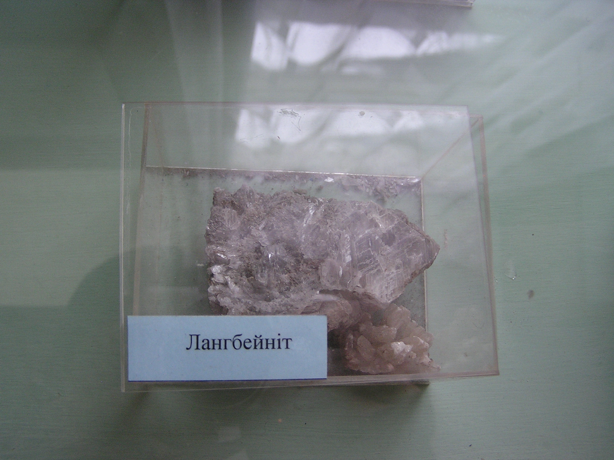 Mineral Langbeinite, exposed in the History museum of Truskavets